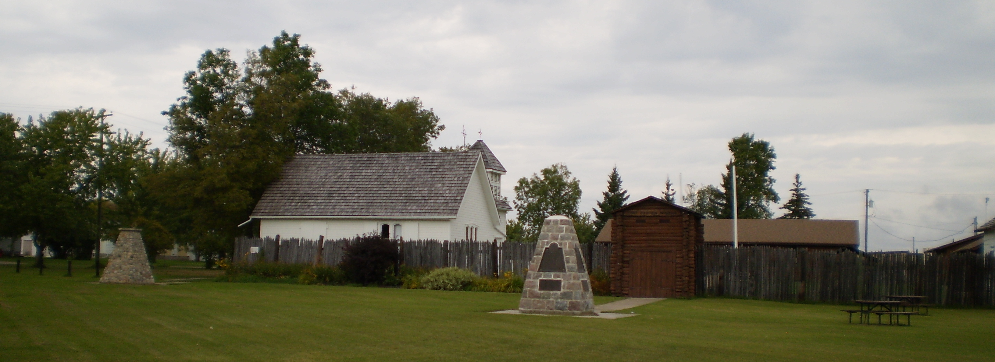 Fort Dauphin Museum, Manitoba, Canada